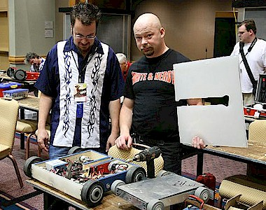 Michael "Shaggy" Macht and Jason Brown of "Evil Robots, Inc" review a combat robot in the pits of the 2007 Robot Battles competition in Atlanta, Georgia.